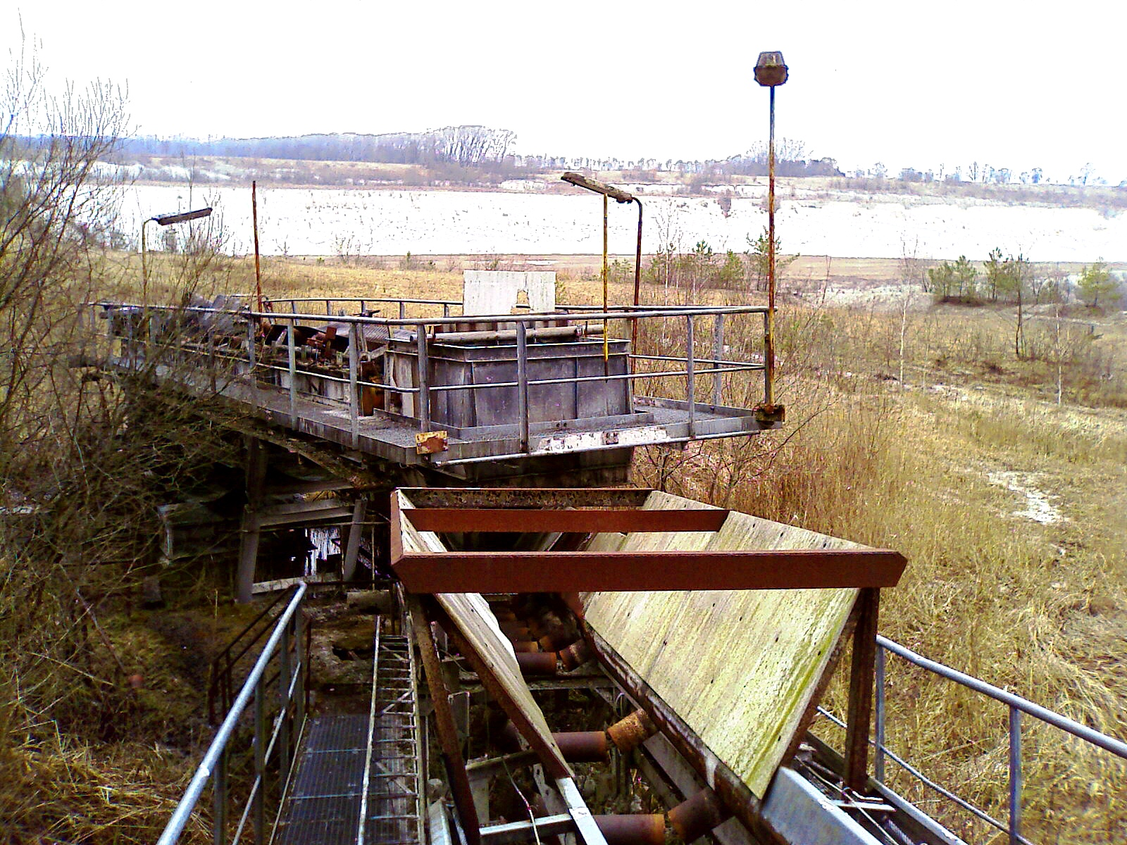 Chalkstone open pit mining close to Lägerdorf (Kreis Steinburg in Schleswig-Holstein)